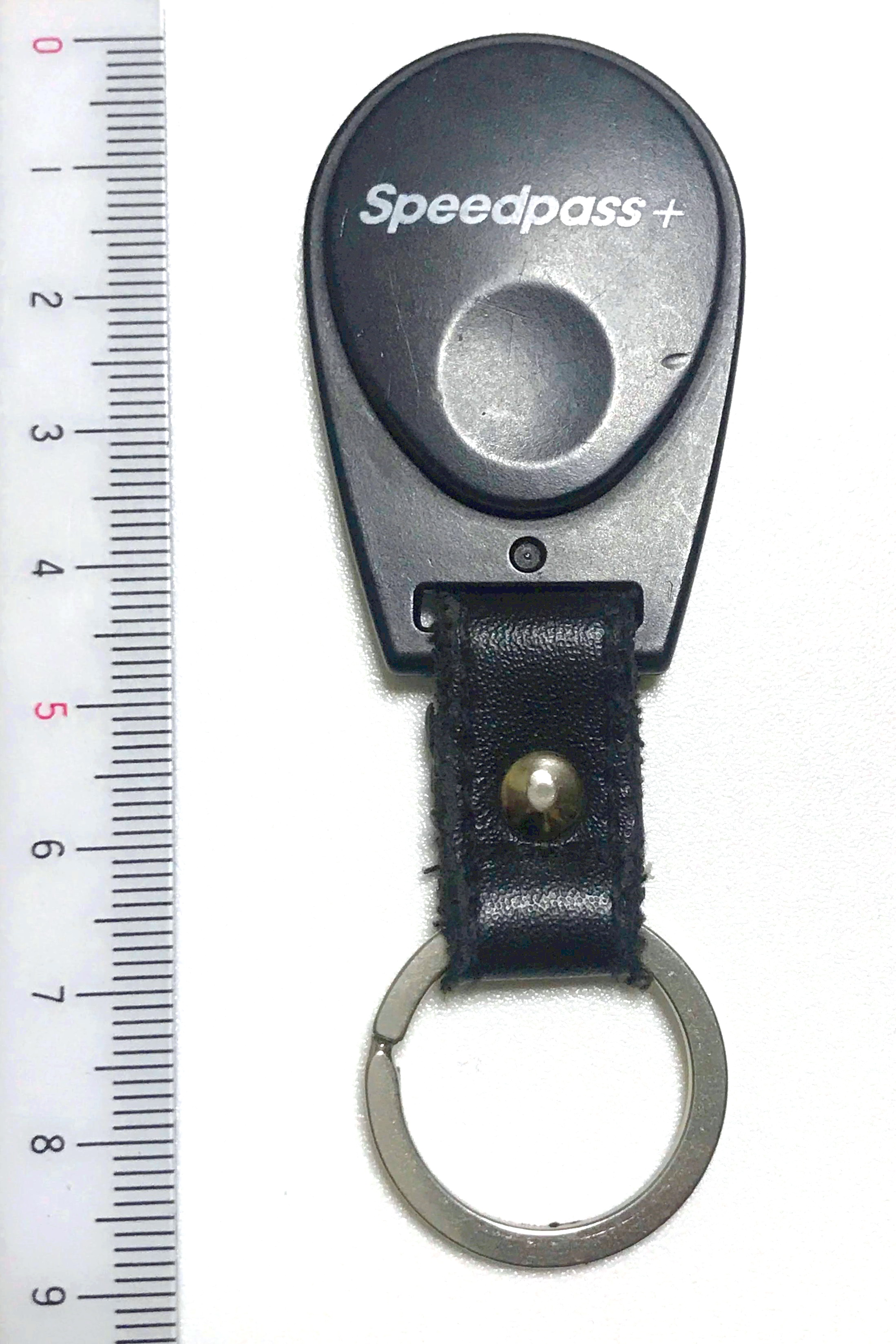 Speedpass+ for Japan. Keychain Type.